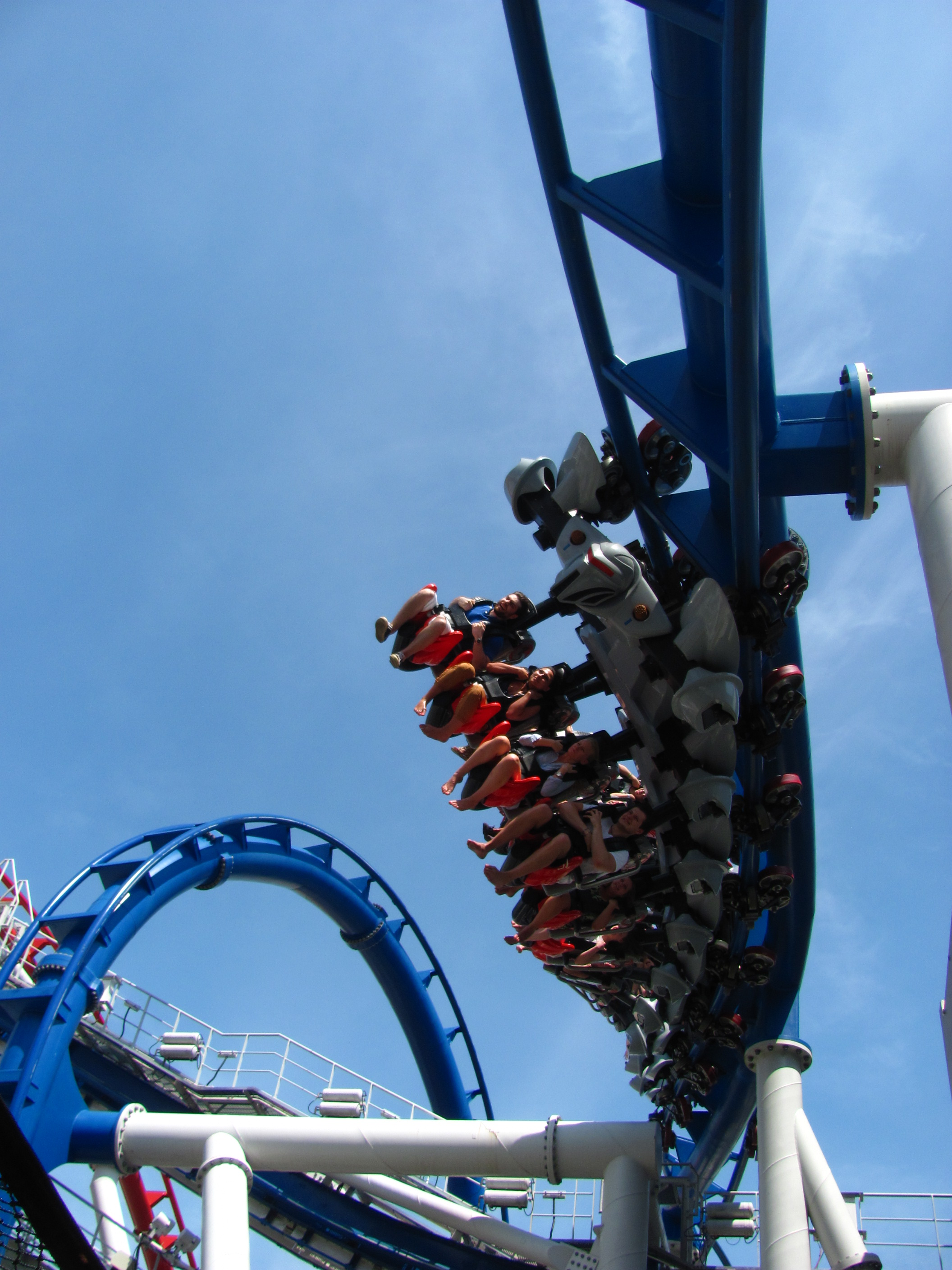 Battlestar Galactica